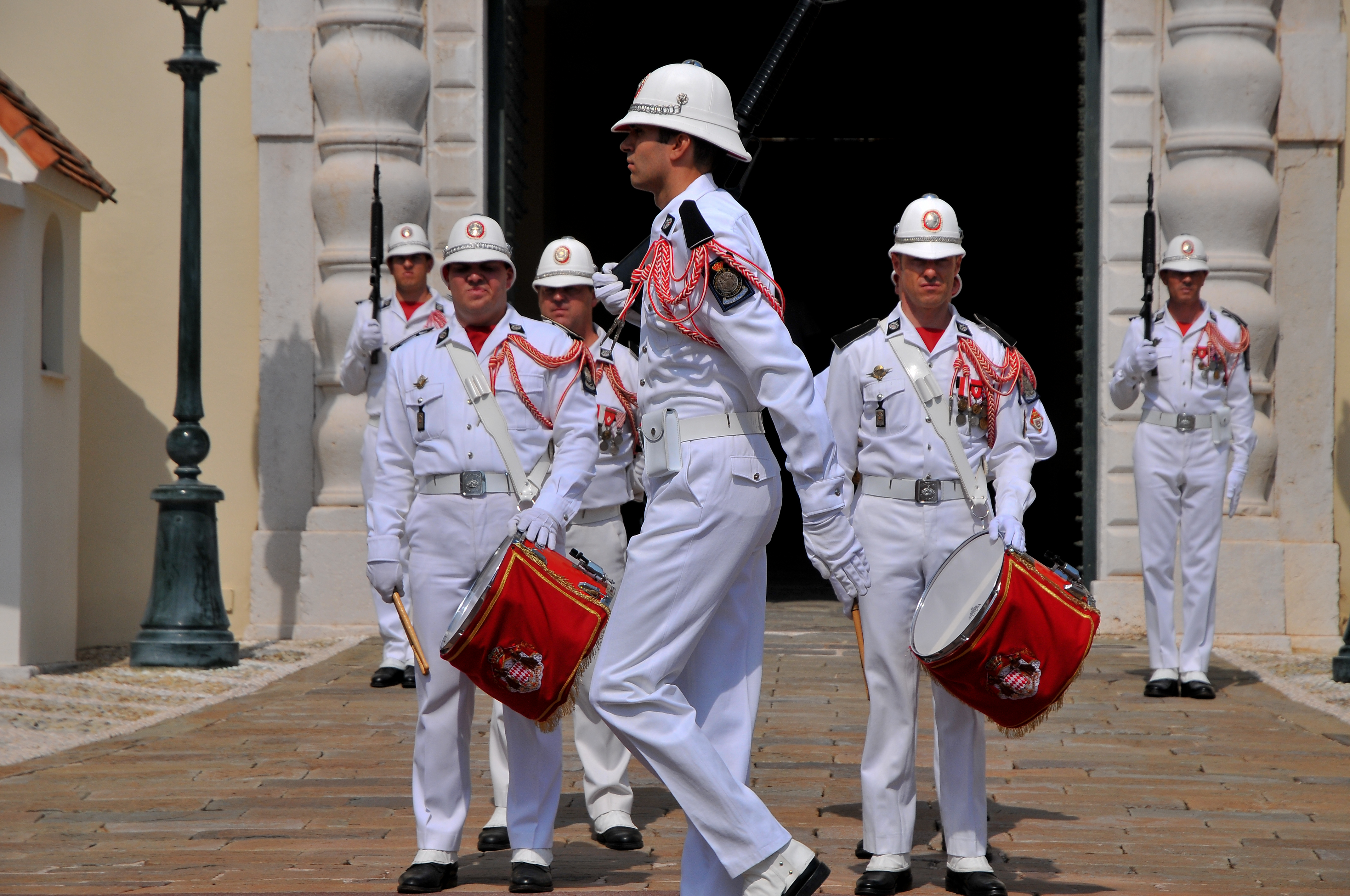 Changing of the Guard at the Prince's Palace